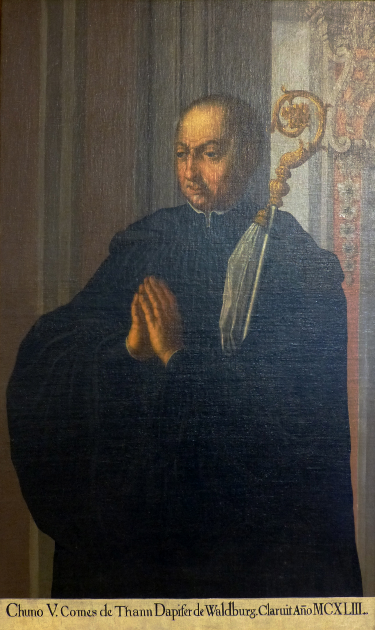 Abbot Cono von Waldburg